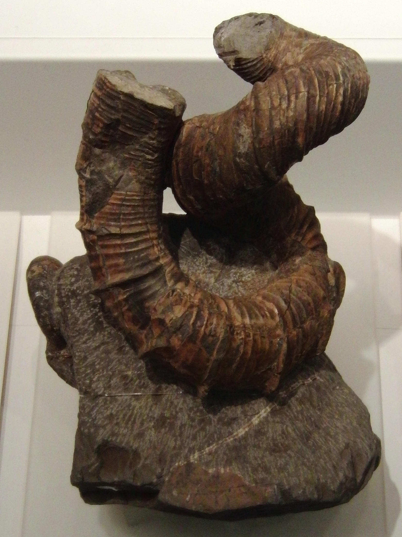 Fossil of Eubostrychoceras japonicum from Obira, Hokkaido, Japan. Late Cretaceous. Exhibit in the National Museum of Nature and Science, Tokyo, Japan.